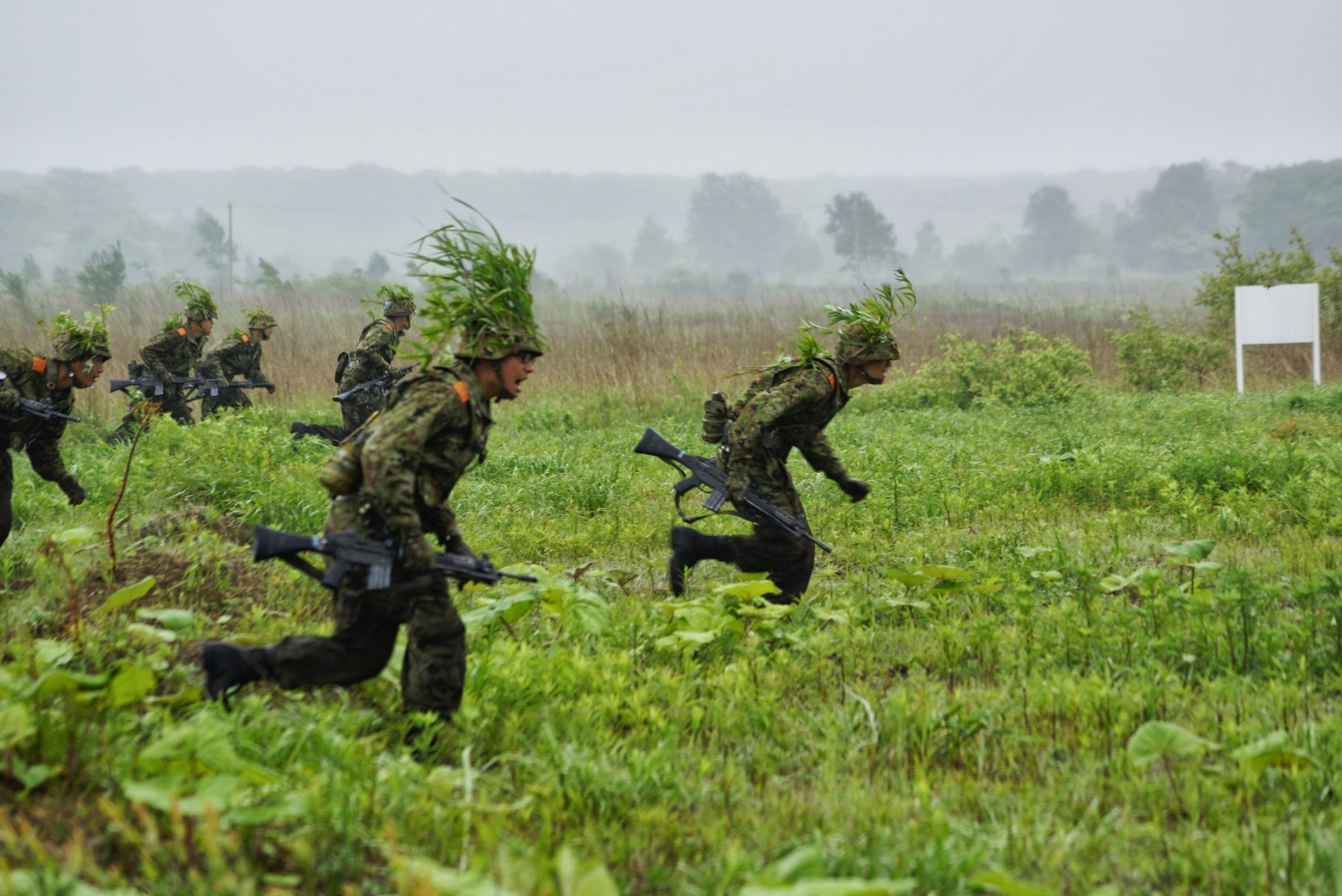 Title 7FA攻撃開始！.JPG Album 教育訓練等 自衛官候補生・戦闘訓練（第７特科連隊・東千歳）